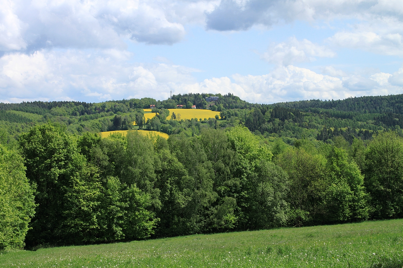 This image shows the Augustusberg (507 m) in the Ore mountains.